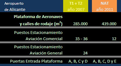 Alicante Airport: Aircraft platform.